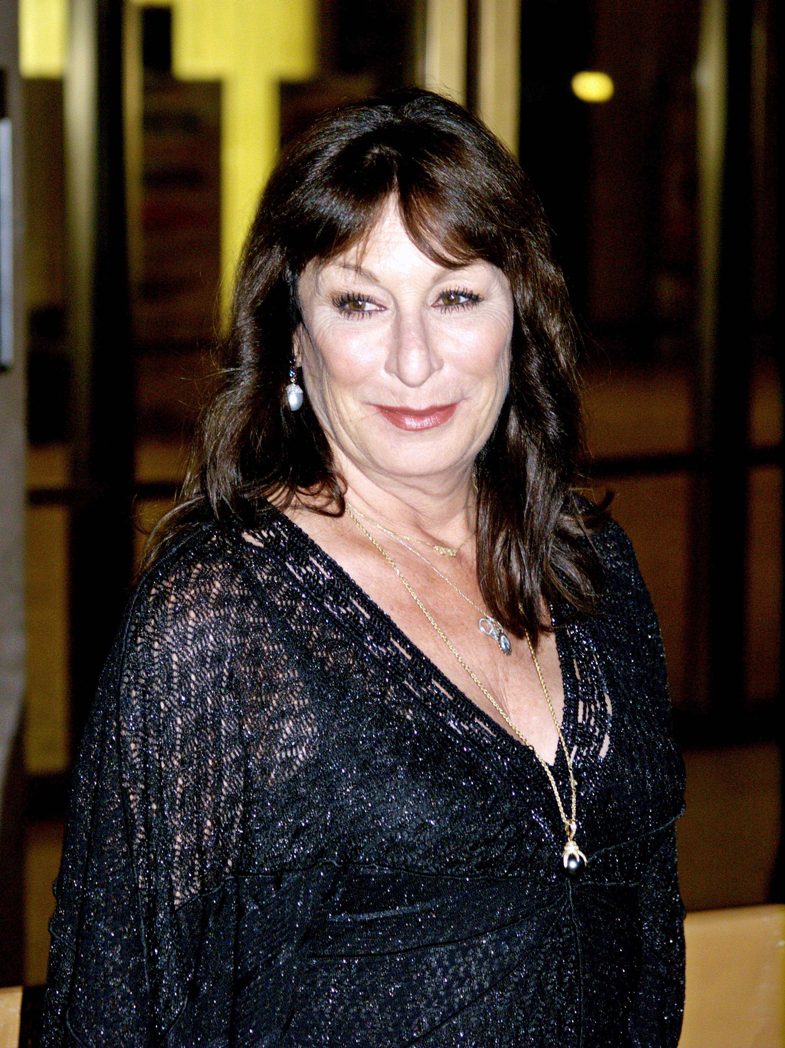 Anjelica Huston at Metropolitan Opera's 2010-11 Season Opening Night - "Das Rheingold"